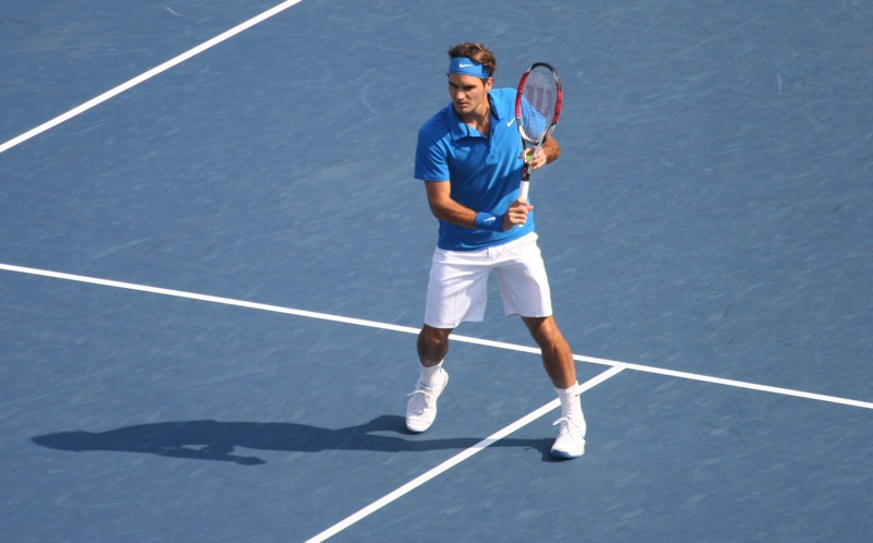 Federer at the 2007 US Open